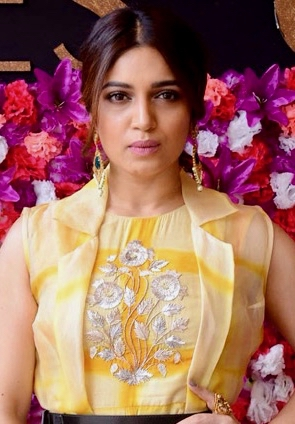 Bhumi Pednekar at Times Glitter in 2017